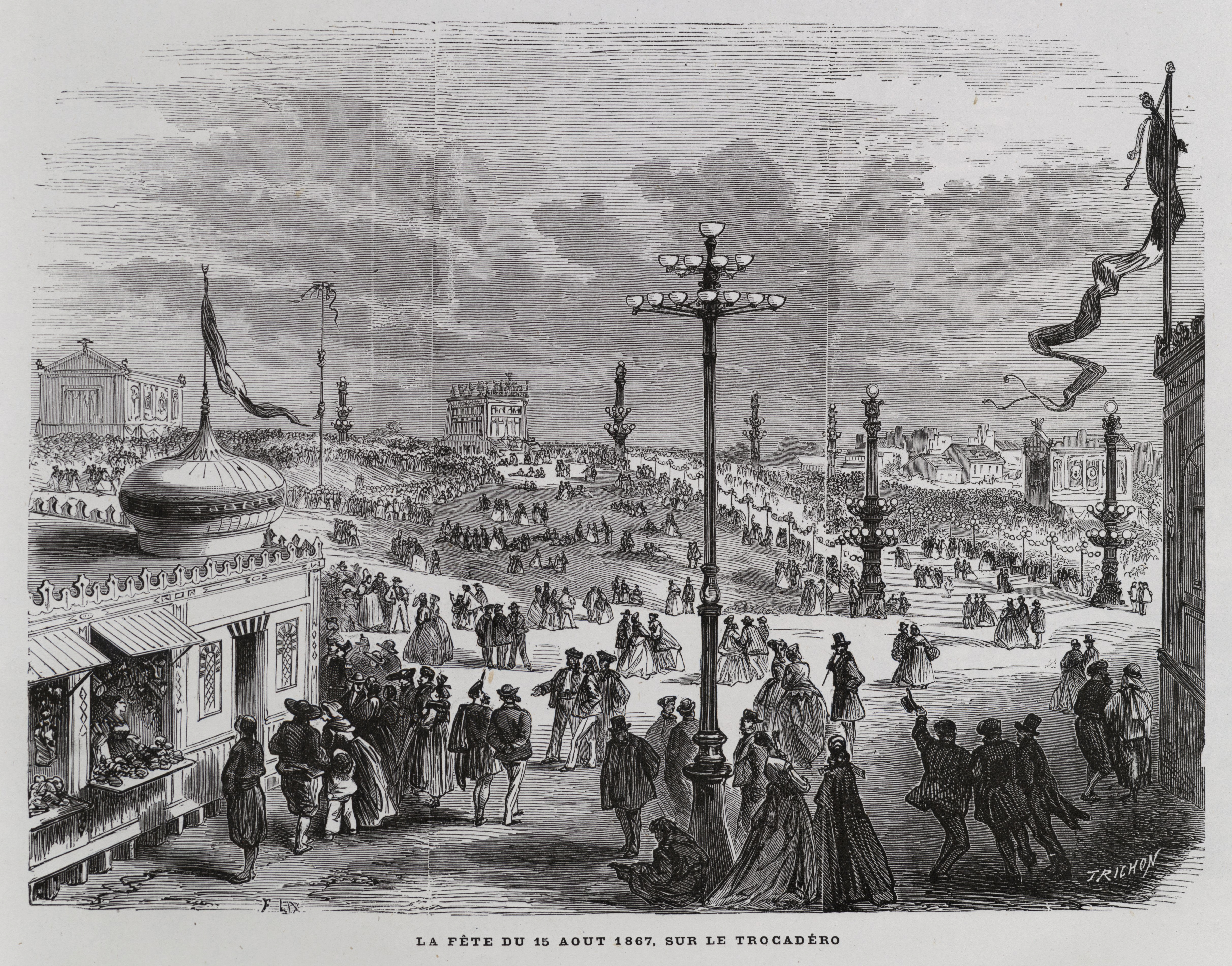 The fifteenth of August had been declared a national holiday by Napoléon I. The date coincided with his birthday, and with the signature of the "concordat," whereby the Pope agreed to grant legitimacy to the Emperor. The "Saint-Napoléon" day, as it was called, disappeared during the Restauration and the July Monarchy, but Napoléon III instaured it back. This print shows the events on the fifteenth of August at the Paris World Fair. On the same day, the Emperor and Empress inaugurated the newly built Opéra Garnier.